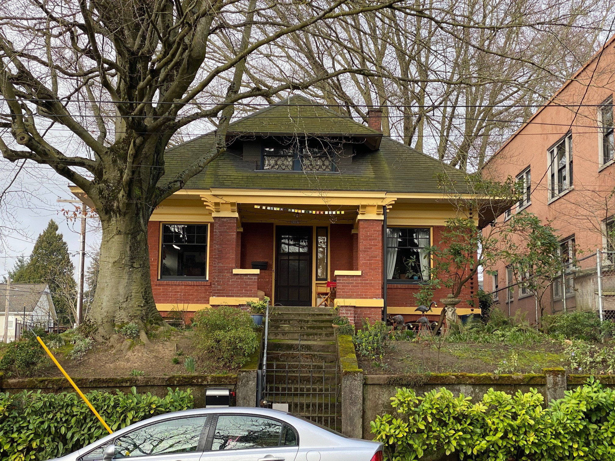 4107 N Albina E Facing Side 2020